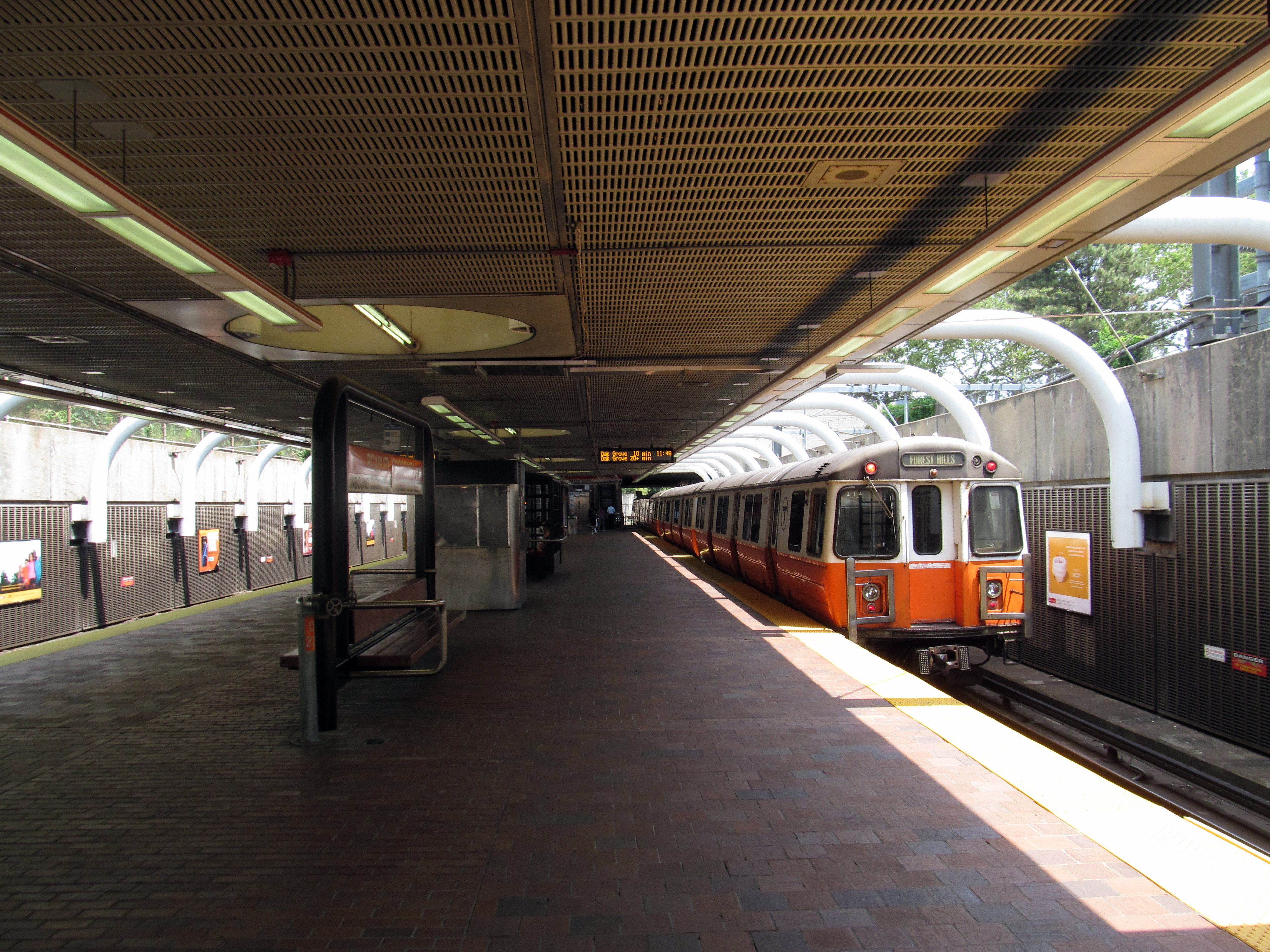 A northbound Orange Line train at Roxbury Crossing station in July 2016